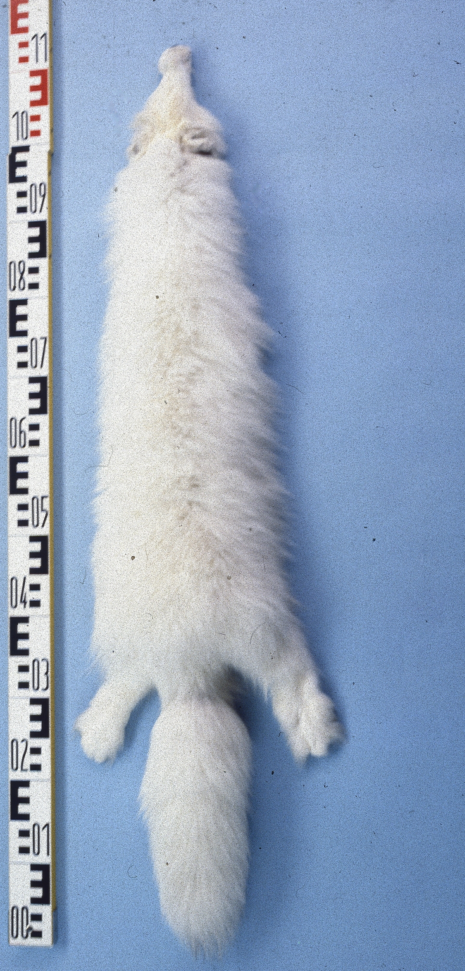 White fox fur skin (Alopex lagopus), Arctic fox, Canada. Fur skin collection, Bundes-Pelzfachschule, Frankfurt/Main, Germany